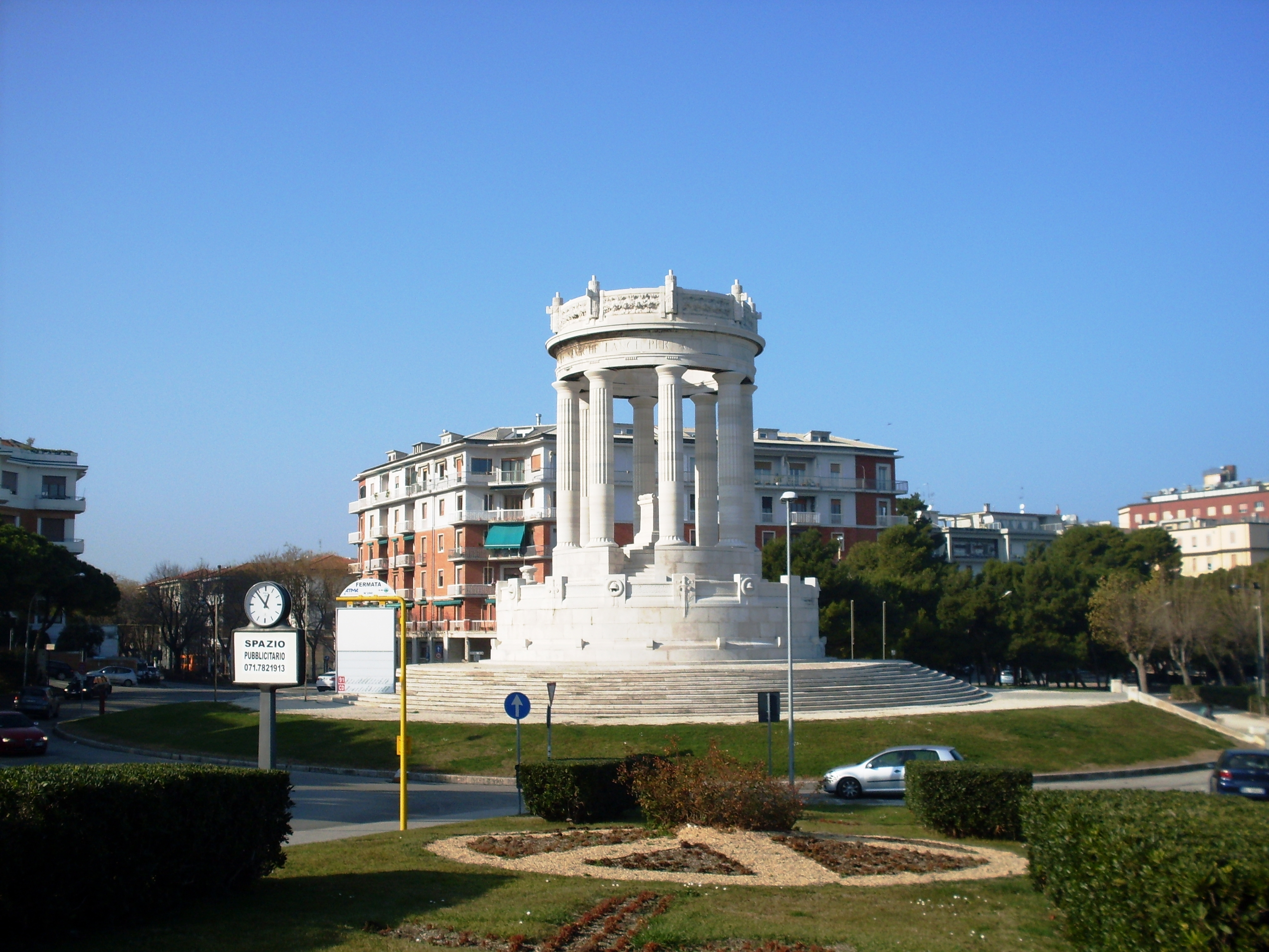 Italy Ancona Passetto - Monument dead italian soldiers 1st world war